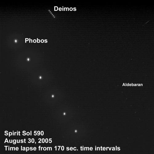 Image of Phobos and Deimos taken from the Spirit rover